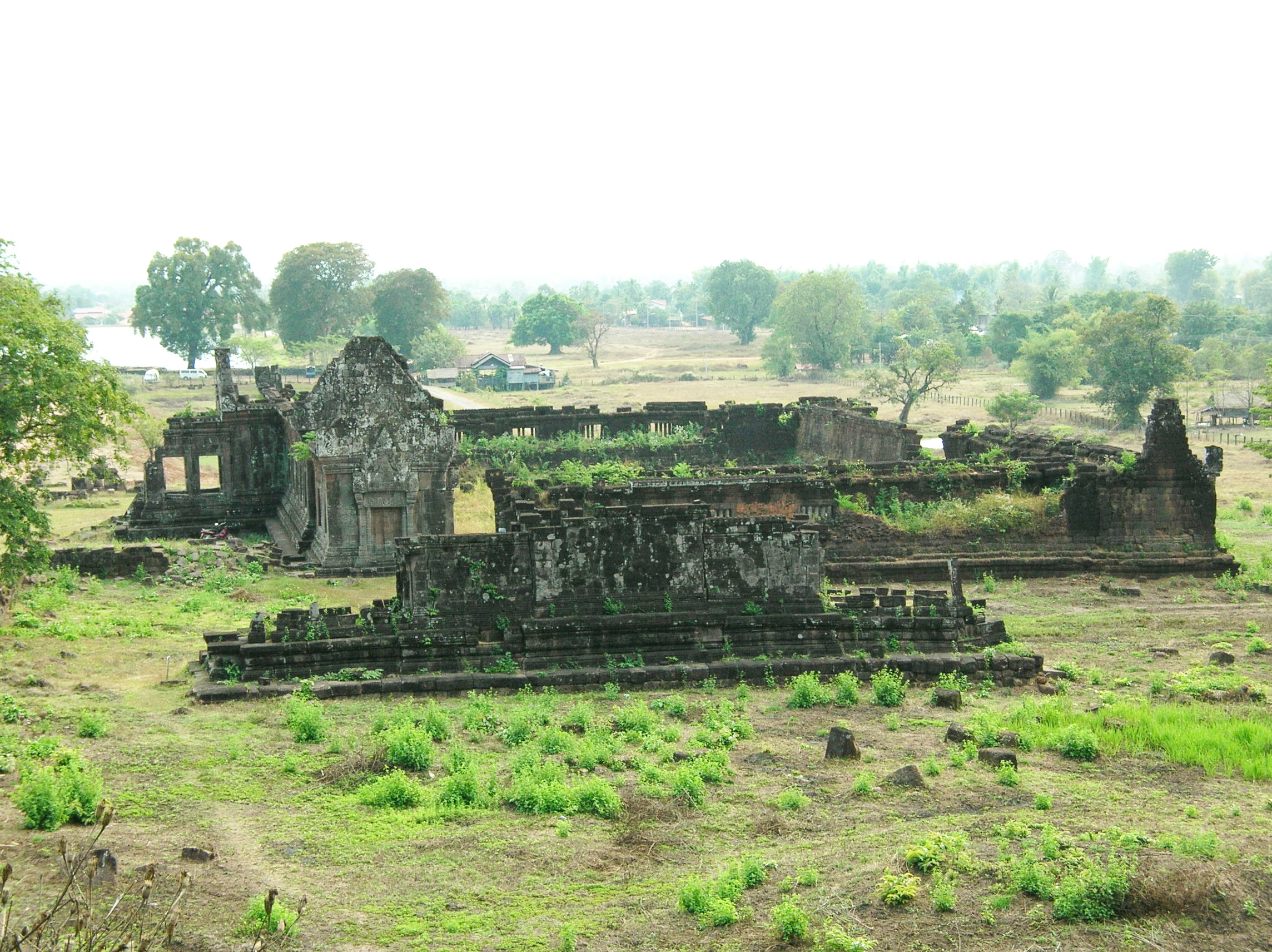 ワット・プー（南側の宮殿と聖牛殿） Wat Phou（Southern Palace）